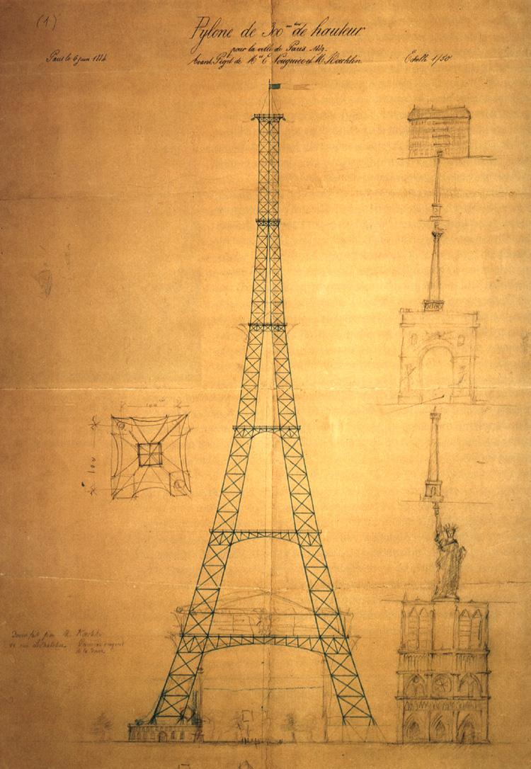 Blueprint of the Eiffel Tower by one of its main engineers, Maurice Koechlin (ca. 1884). Authorization given by Koechlin Family